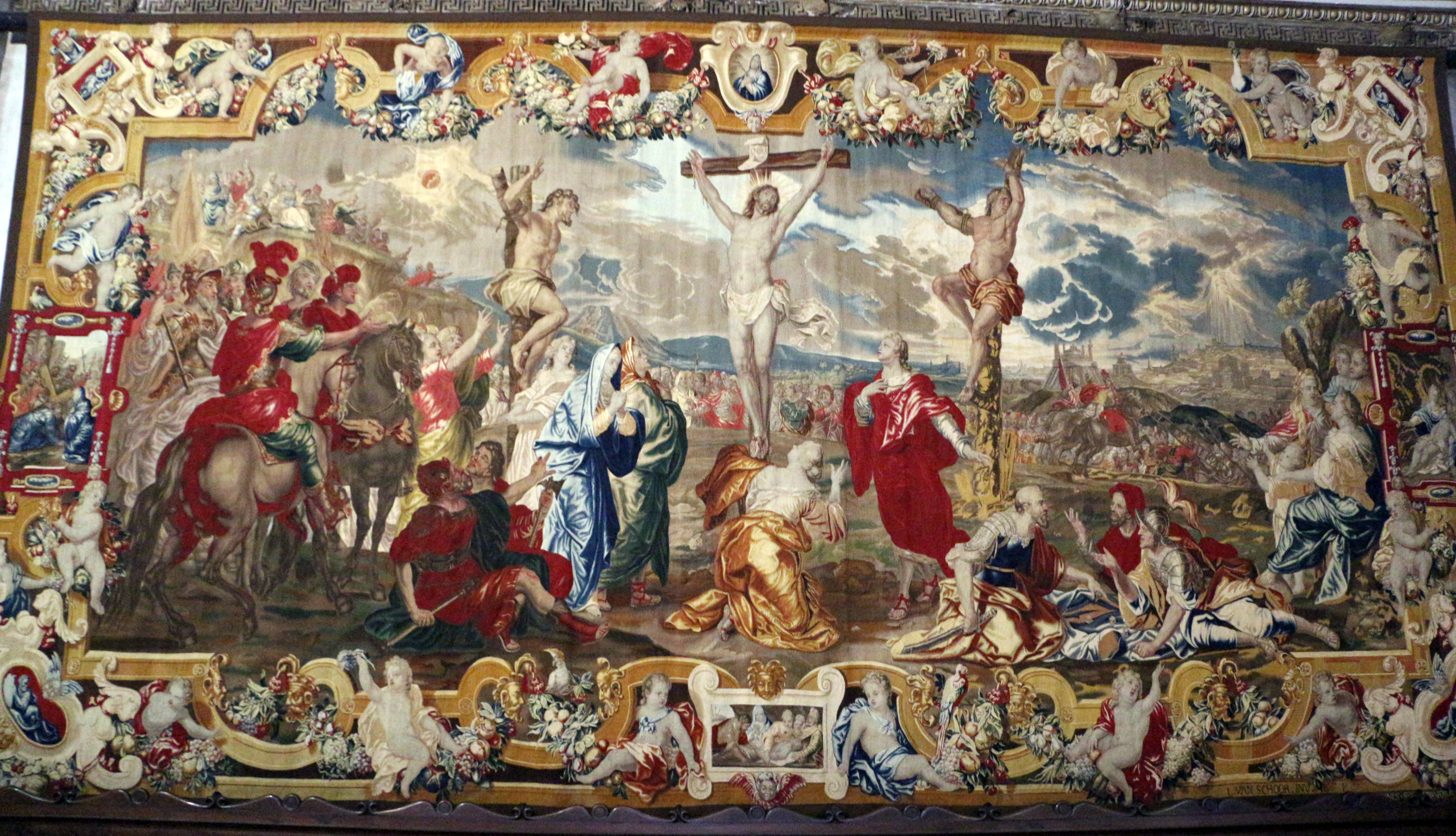 Tapestries in Santa Maria Maggiore (Bergamo)